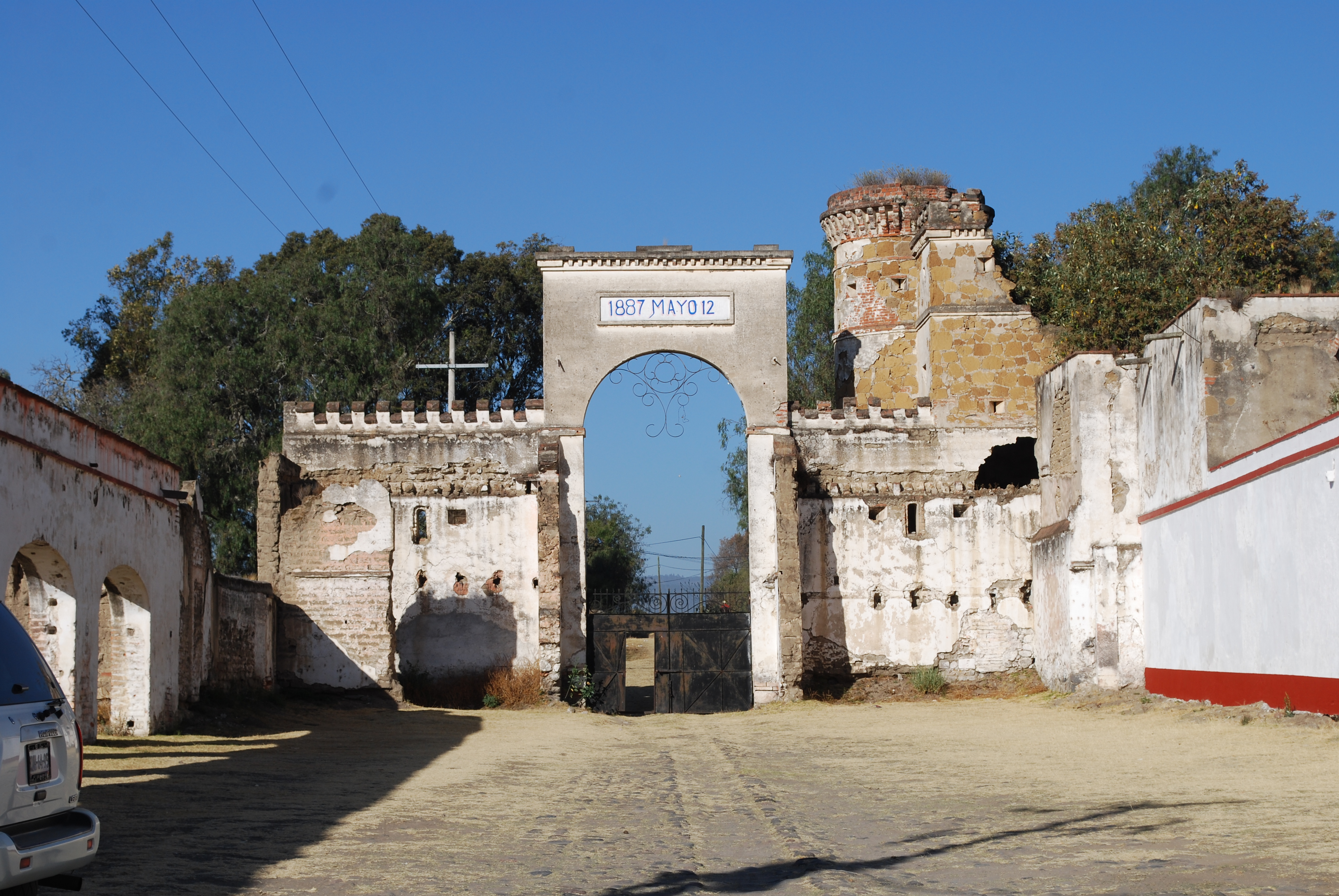 Gate with the date of May 12 1887 at the entrance to the Chautla Hacienda, San Salvador el Verde, Puebla, Mexico